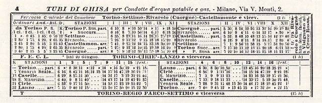 Rivarolo-Castellamonte timetable